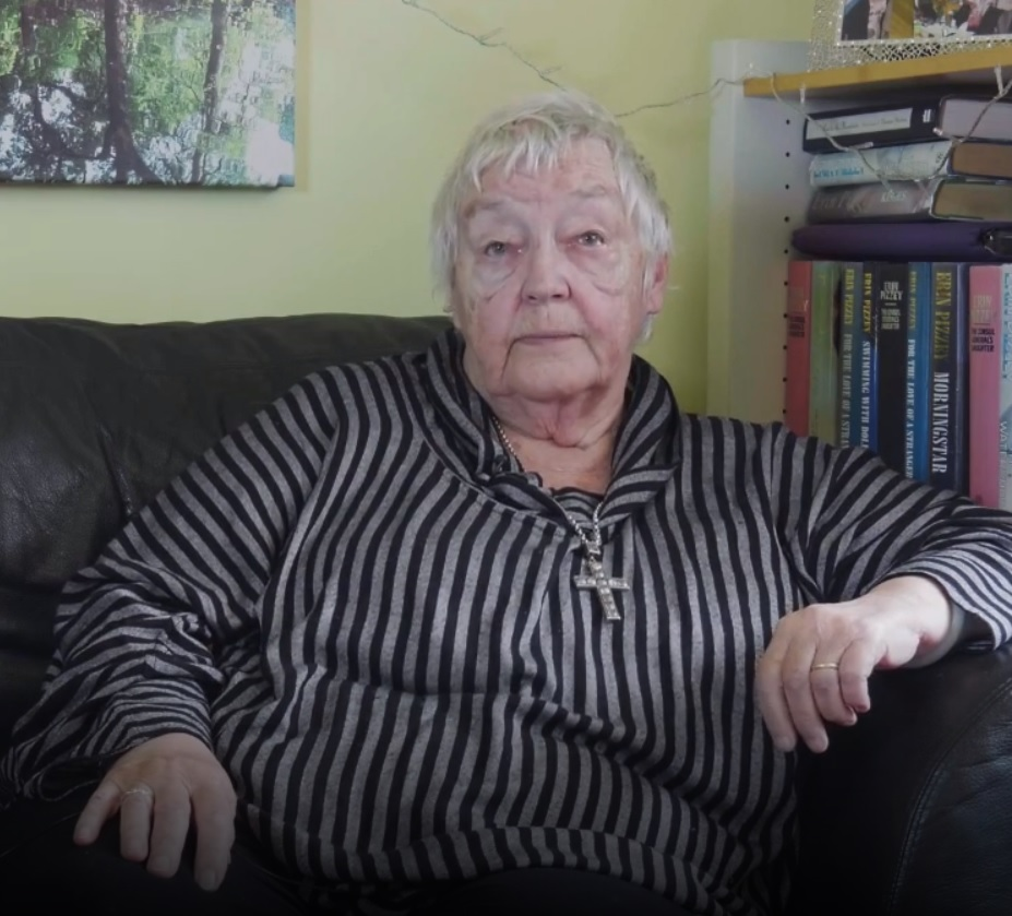 Interview with Erin Pizzey, who details the obstacles she had starting up a refuge for those suffering domestic violence. Interview conducted by Melanie McFadyean. Watch the full interactive on social change here